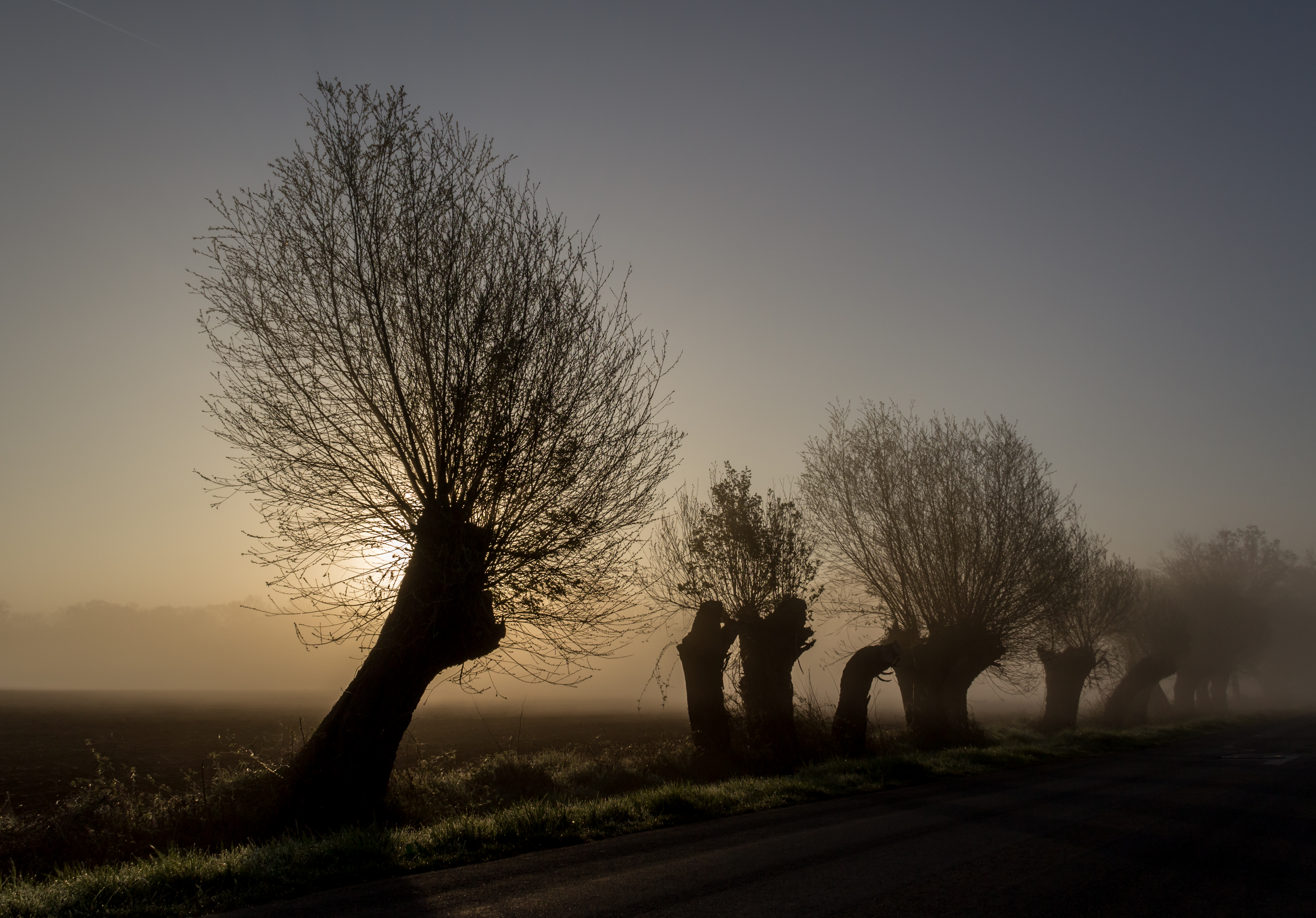 Willow trees in the morning fog in Dernekamp in Dülmen, North Rhine-Westphalia, Germany